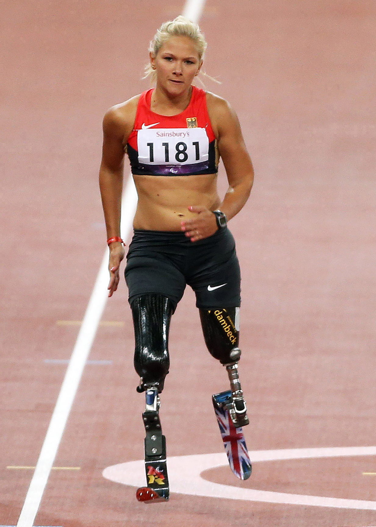 German Paralympic sprinter and long jumper Vanessa Low, seen here competing in the final of the T42 100 metre sprint at the 2012 Summer Paralympics in London.